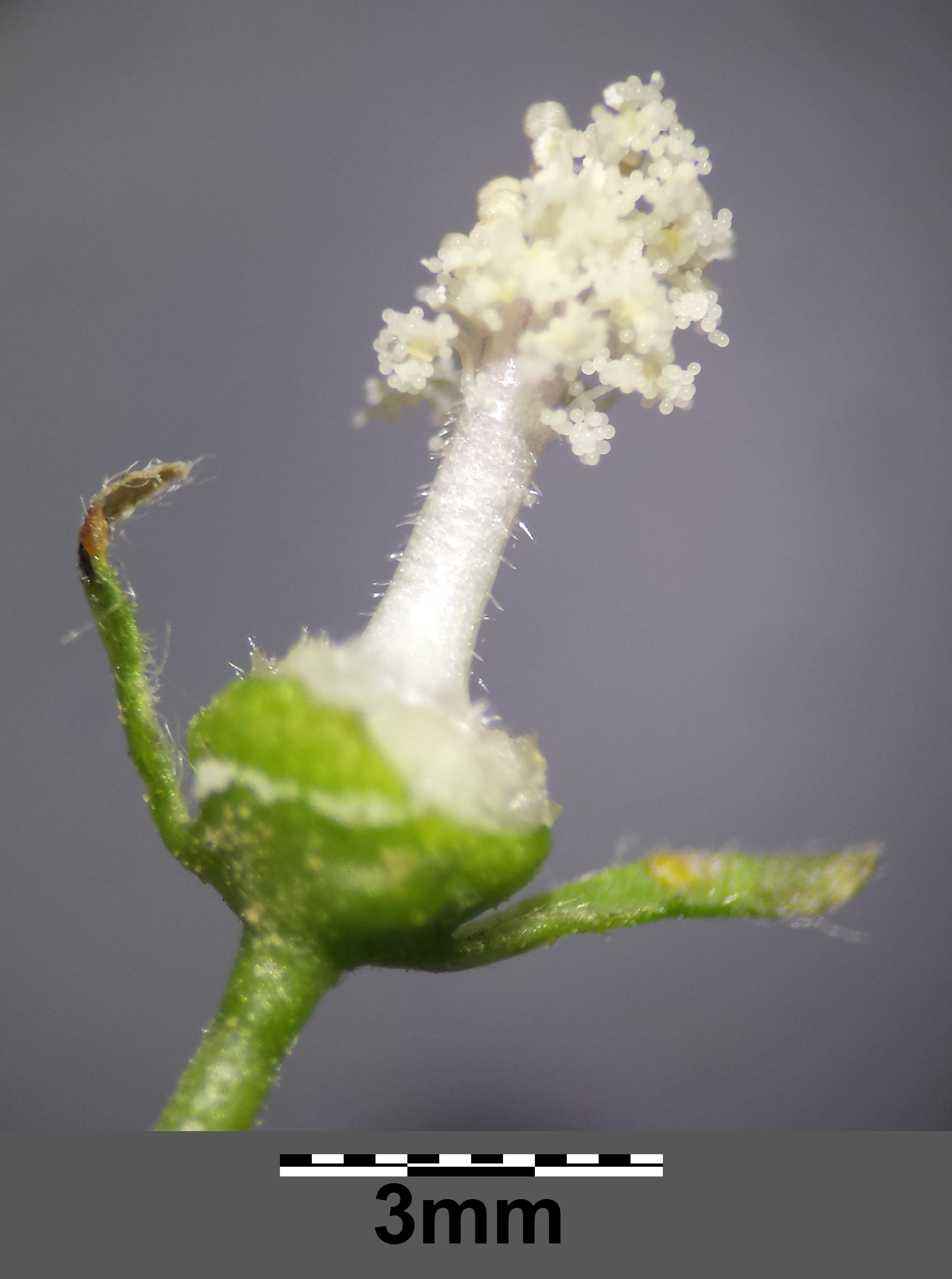 Opened flower Taxonym: Malva neglecta ss Fischer et al. EfÖLS 2008 ISBN 978-3-85474-187-9 Location: between Michelberg and Steinberg near Niederhollabrunn, district Korneuburg, Lower Austria - ca. 300 m a.s.l. Habitat: wayside